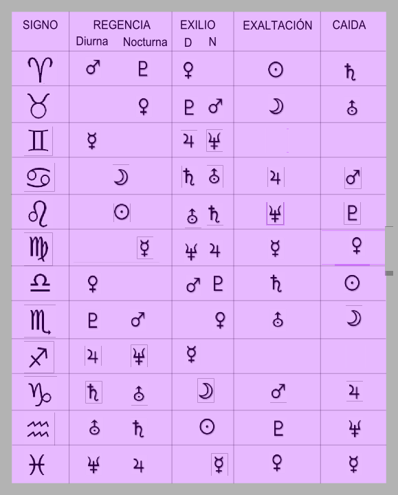 Essential dignities of planets in traditional and modern astrology